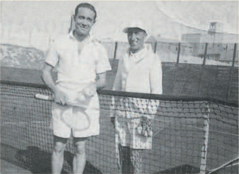 Greek Davis Cup tennis players, Augustos Zerlendis and Max Belli, 1928